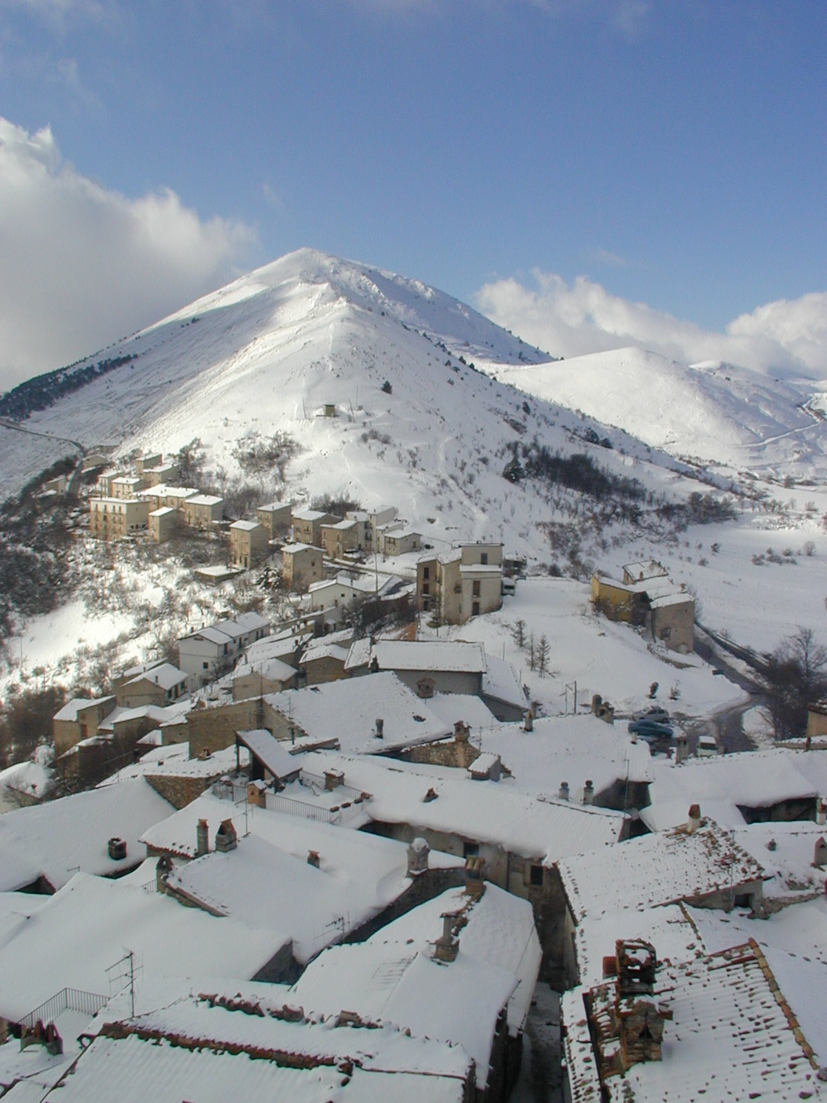 View from the Medici Tower out over the Gran Sasso National Park, Santo Stefano di Sessanio, Abruzzo